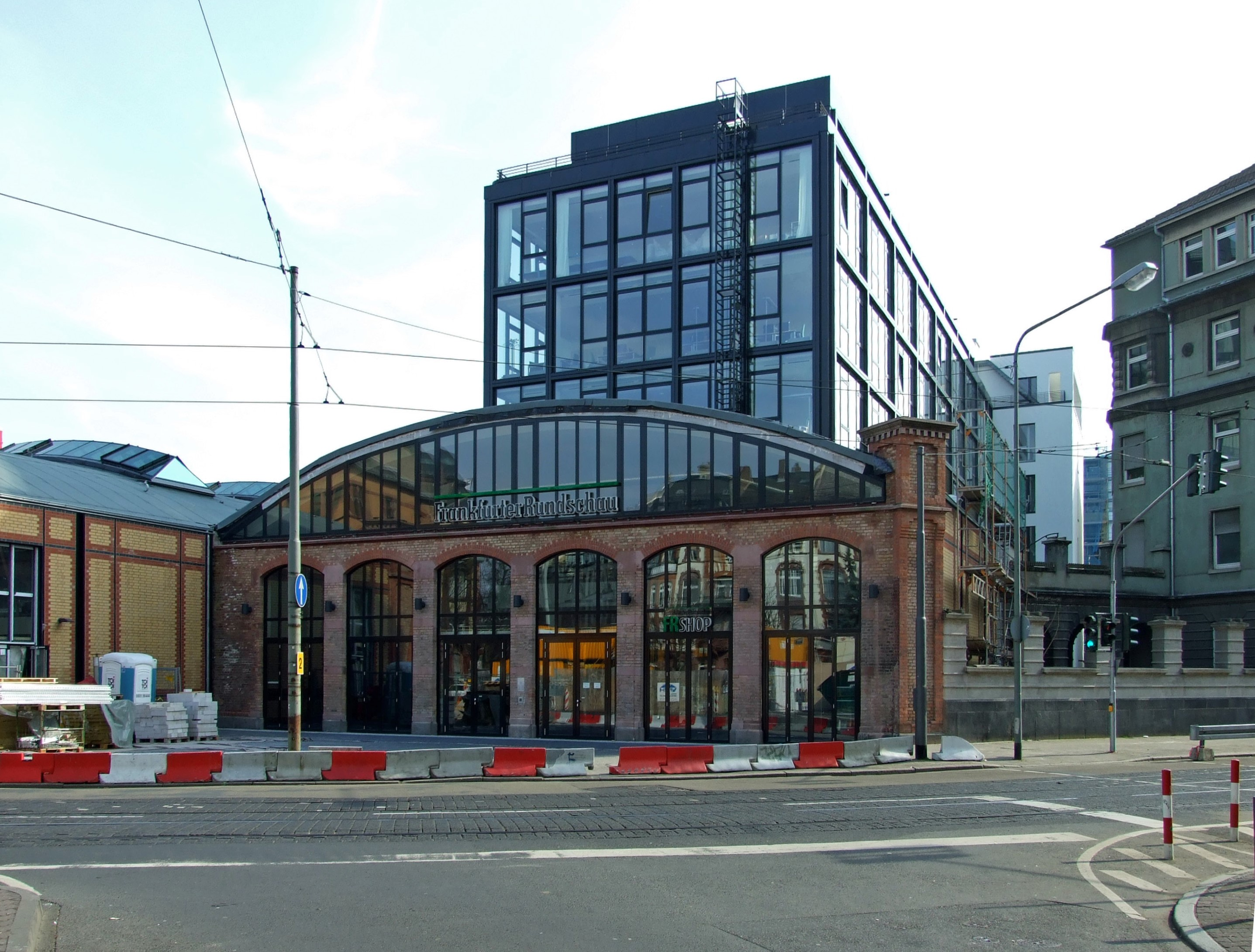 New FR editoral office in Ffm-Sachsenhausen, Karl-Gerold-Platz